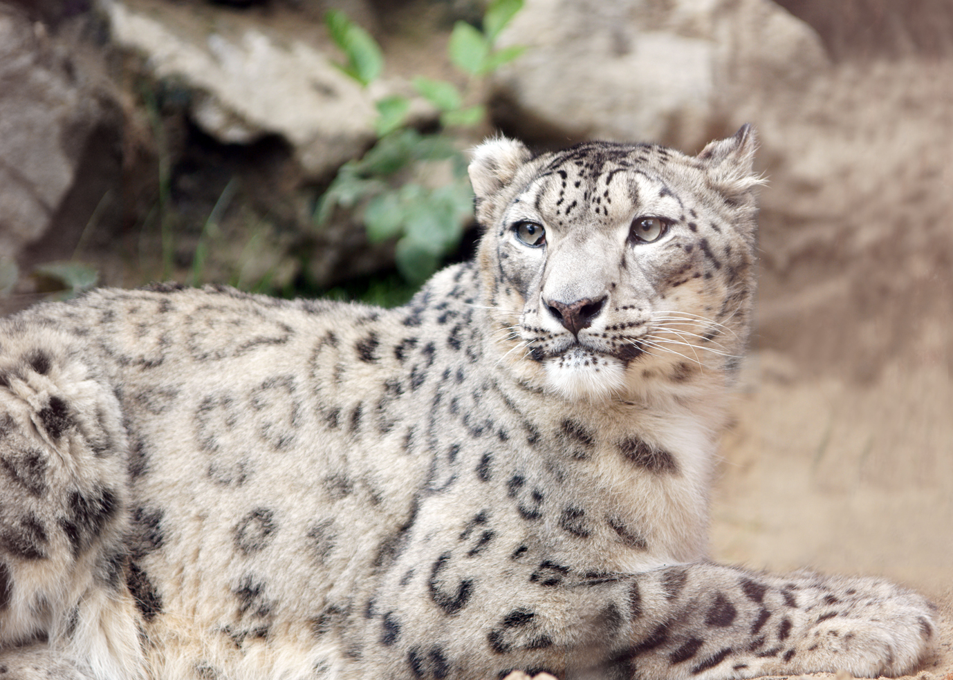 Snow leopard